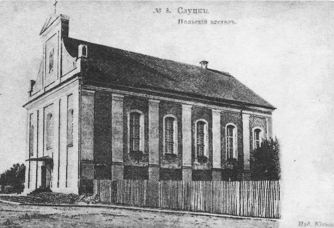 Catholic Church of St. Anthony in Słucak